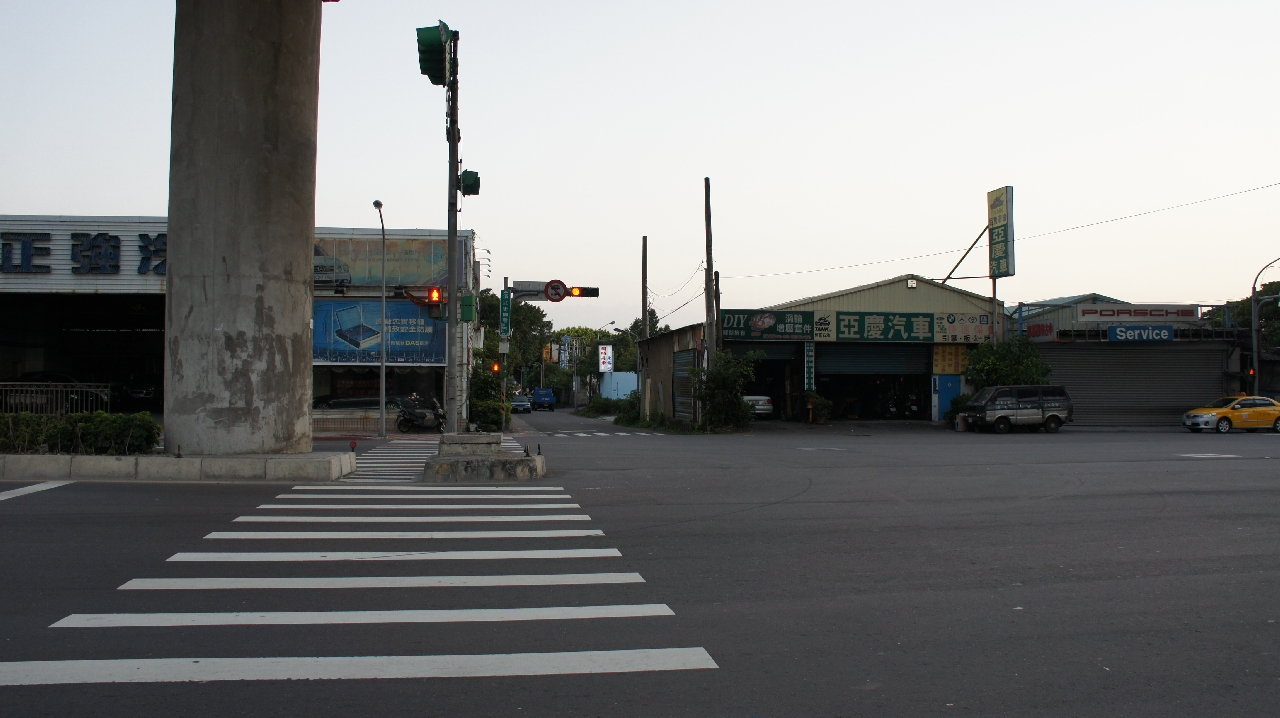 North entrance To 180 Lane Binjiang Street.